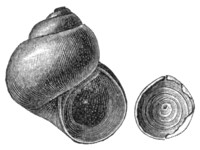 Drawing of the apertural view of the shell of Amnicola dalli and operculum.